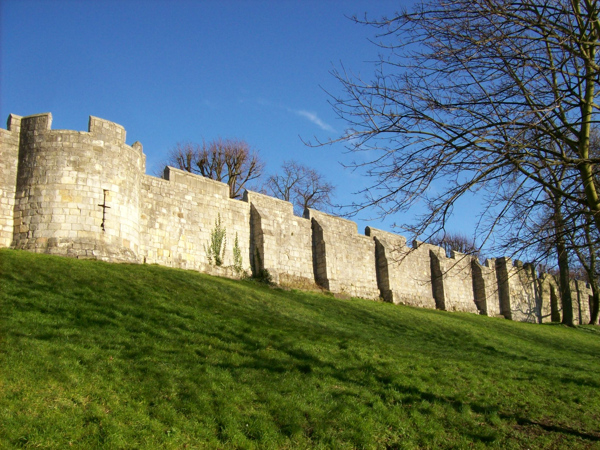 City Walls, Nunnery Lane, York